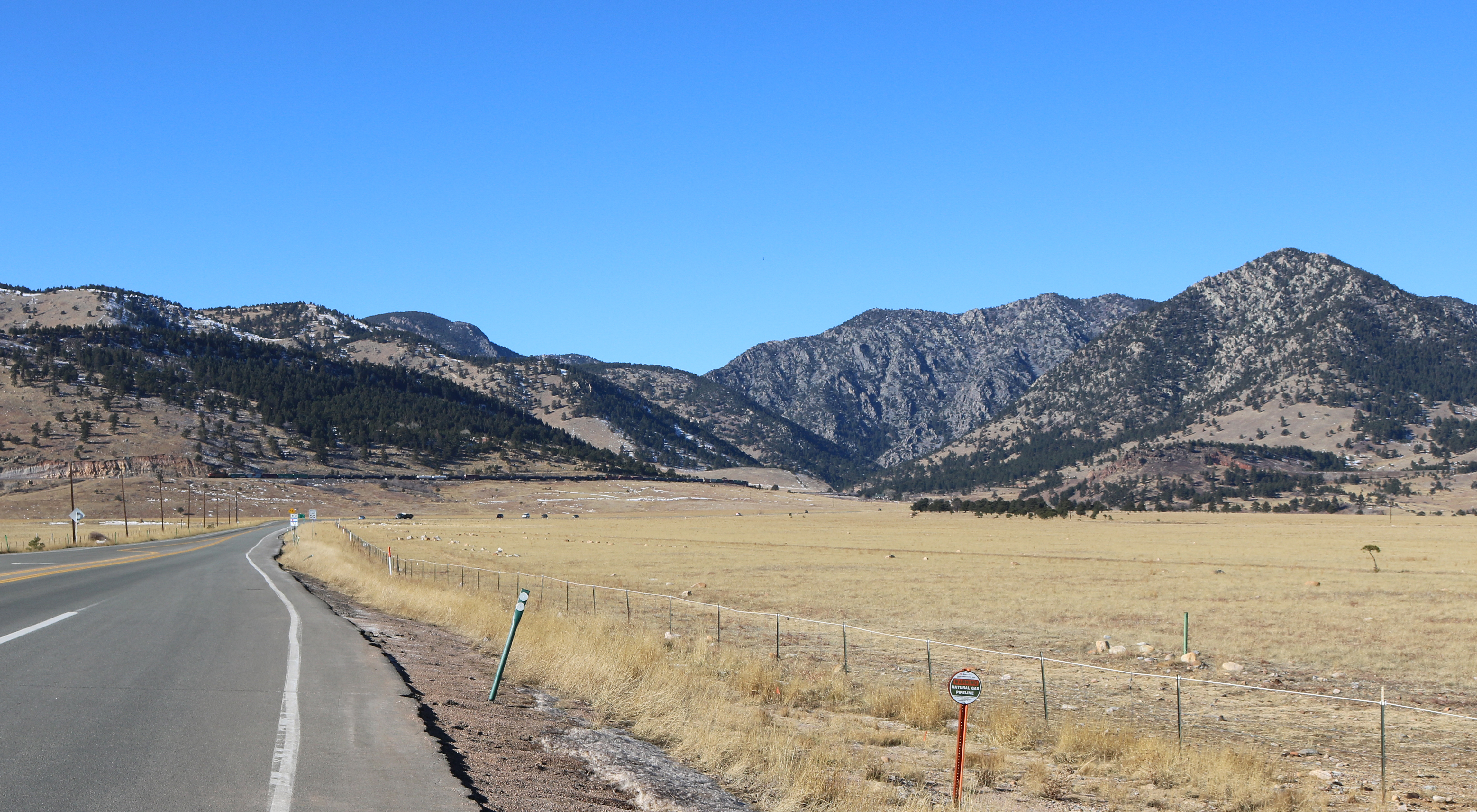 Colorado State Highway 72 as it enters Coal Creek Canyon in Jefferson County, Colorado. The view is towards the west, with the picture taken just to the west of the highway's intersection with Colorado State Highway 93. Looking closely, one can see a Union Pacific freight train rounding a corner and heading in towards Denver.